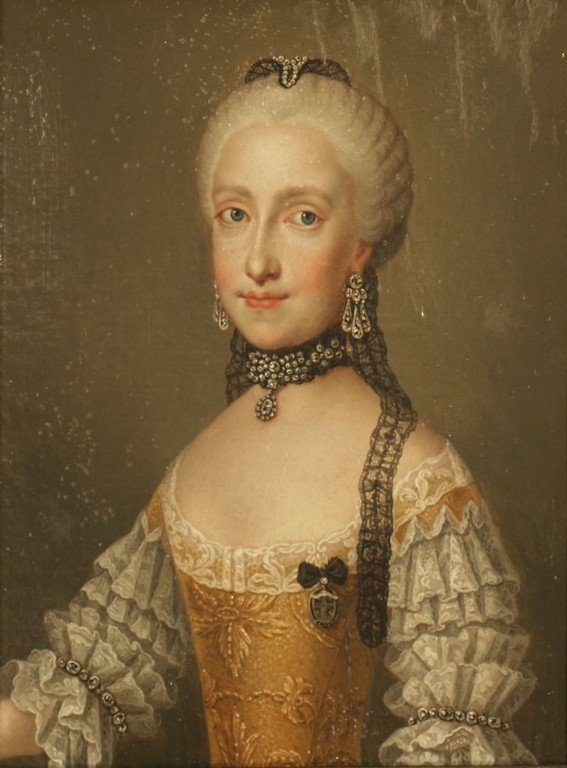 Portrait of Maria Luisa of Spain (1745-1792), wife of Holy Roman Emperor Leopold II